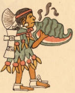 This is an Aztec conch shell trumpet, called a "quiquiztli", signaler, called a "quiquizoani" (IPA: [kikiˈsoani][1]), in Nahuatl from the Codex Magliabecchi on page 023